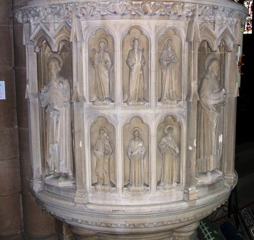 Pulpit carved by Nathaniel Hitch in Holy Trinity Church, Ayr, Scotland